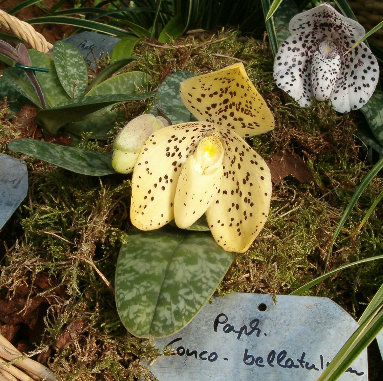 Paphiopedilum wenshanense, Habitus and Flowers Location: Botanical Gardens Berlin - Orchid Exhibition